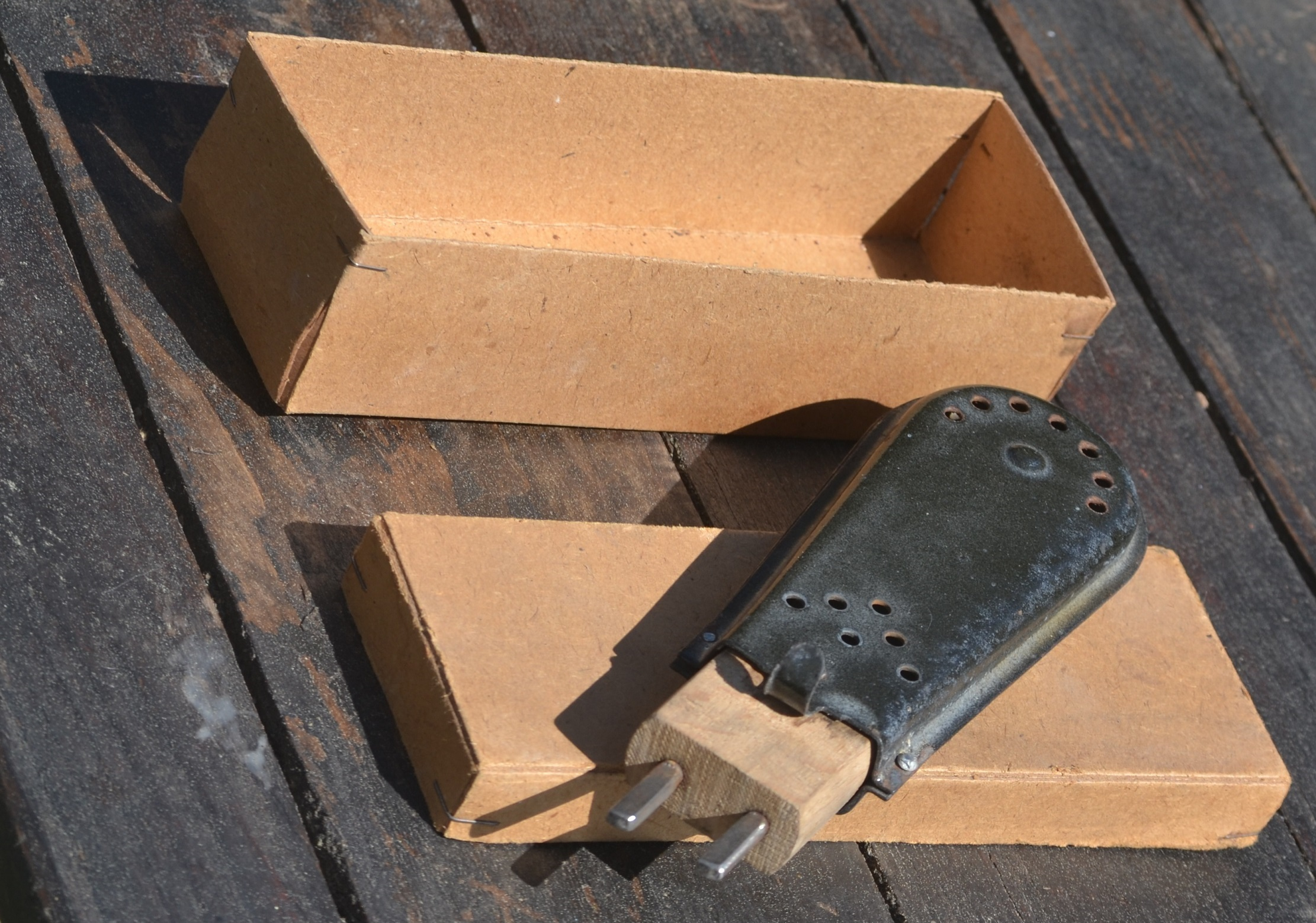 immersion heater using the the conductivity of the water: the two electrodes, which are connected directly to the mains voltage (220 Volt), are beneath the enamelled steel case. Prod. date approx. 1940, user instructions see Heisswasserbereiter_instructions.jpeg, length approx. 160mm